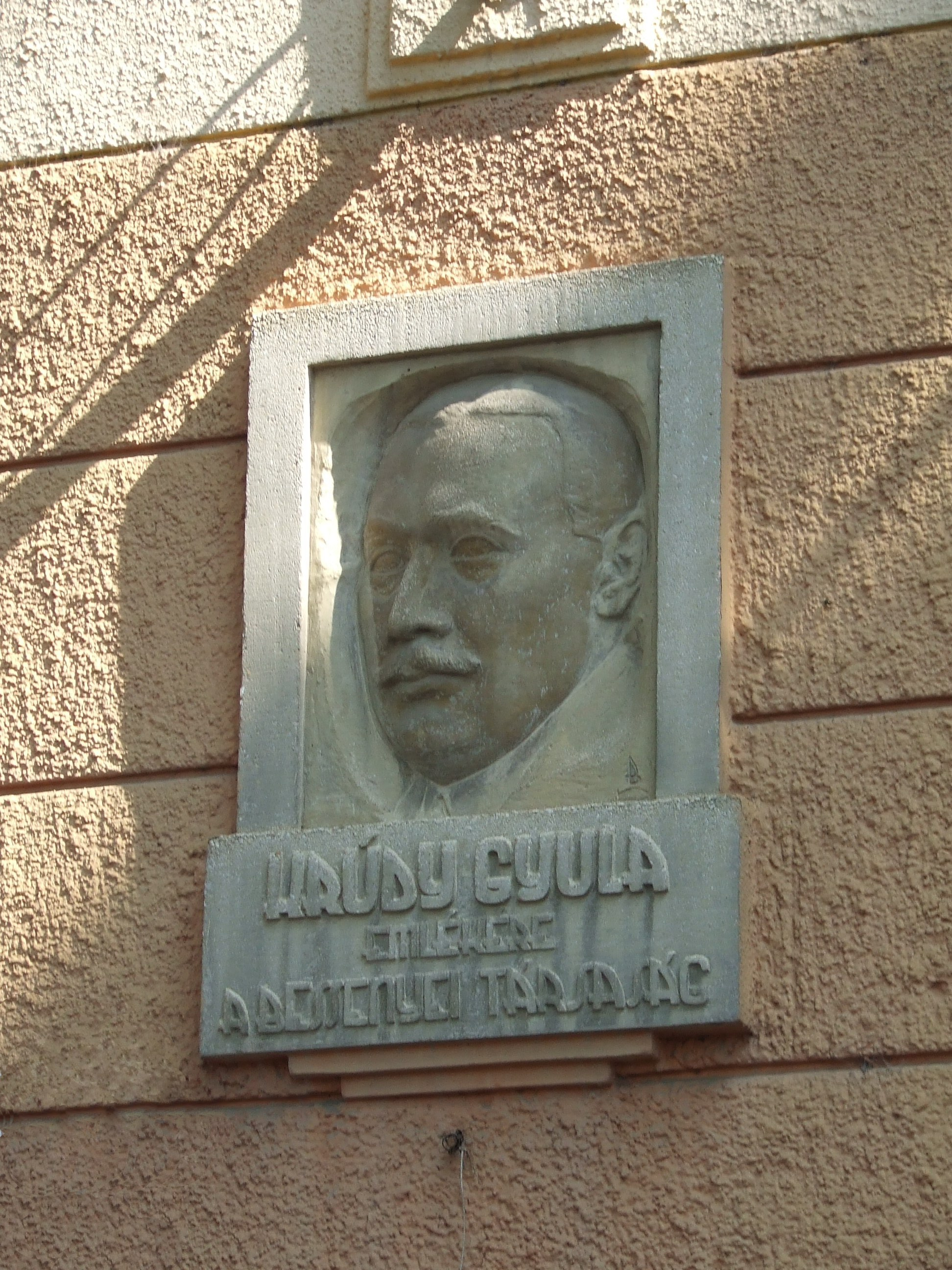 Gyula Krúdy the birthplace of relief on the wall. Nandor Berky (1911-1981) work (1949)